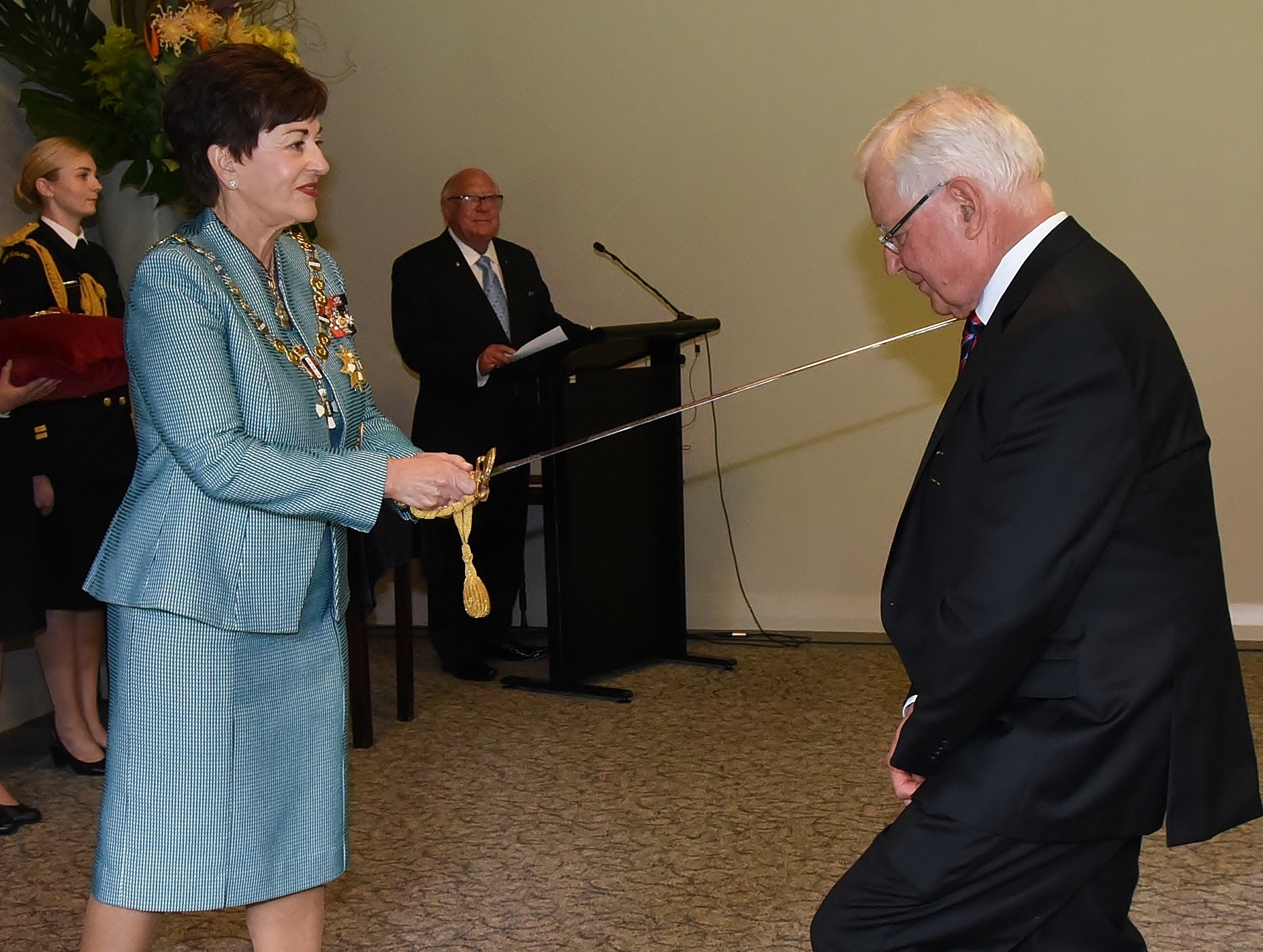 Investiture of Distinguished Professor Sir Richard Faull as a KNZM, for services to medical research, by the Governor-General, Dame Patsy Reddy, on 26 Aprl 2017